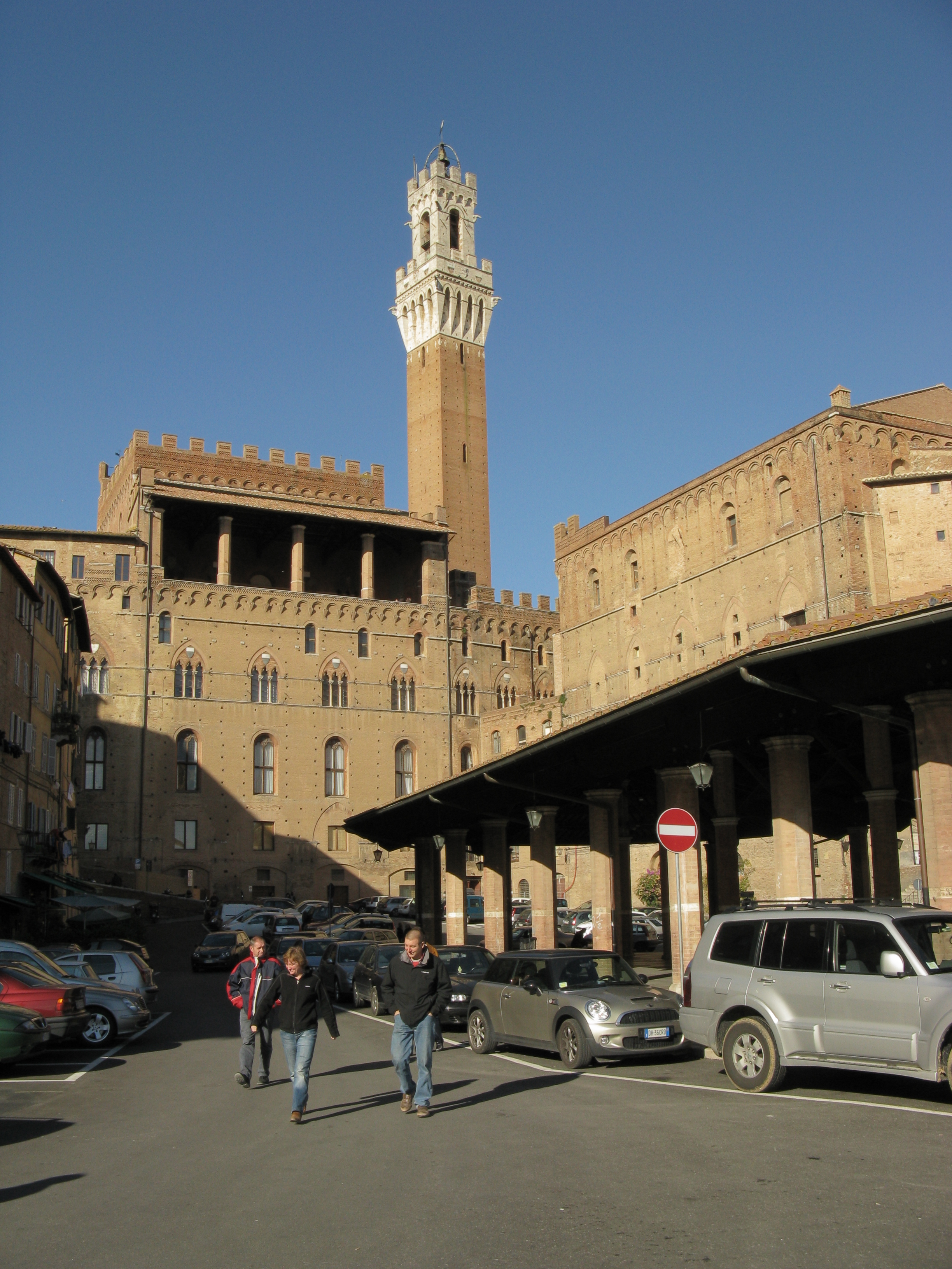 The loggia at the back of the Palazzo Pubblico from the Piazza del Mercato in Siena, Italy.